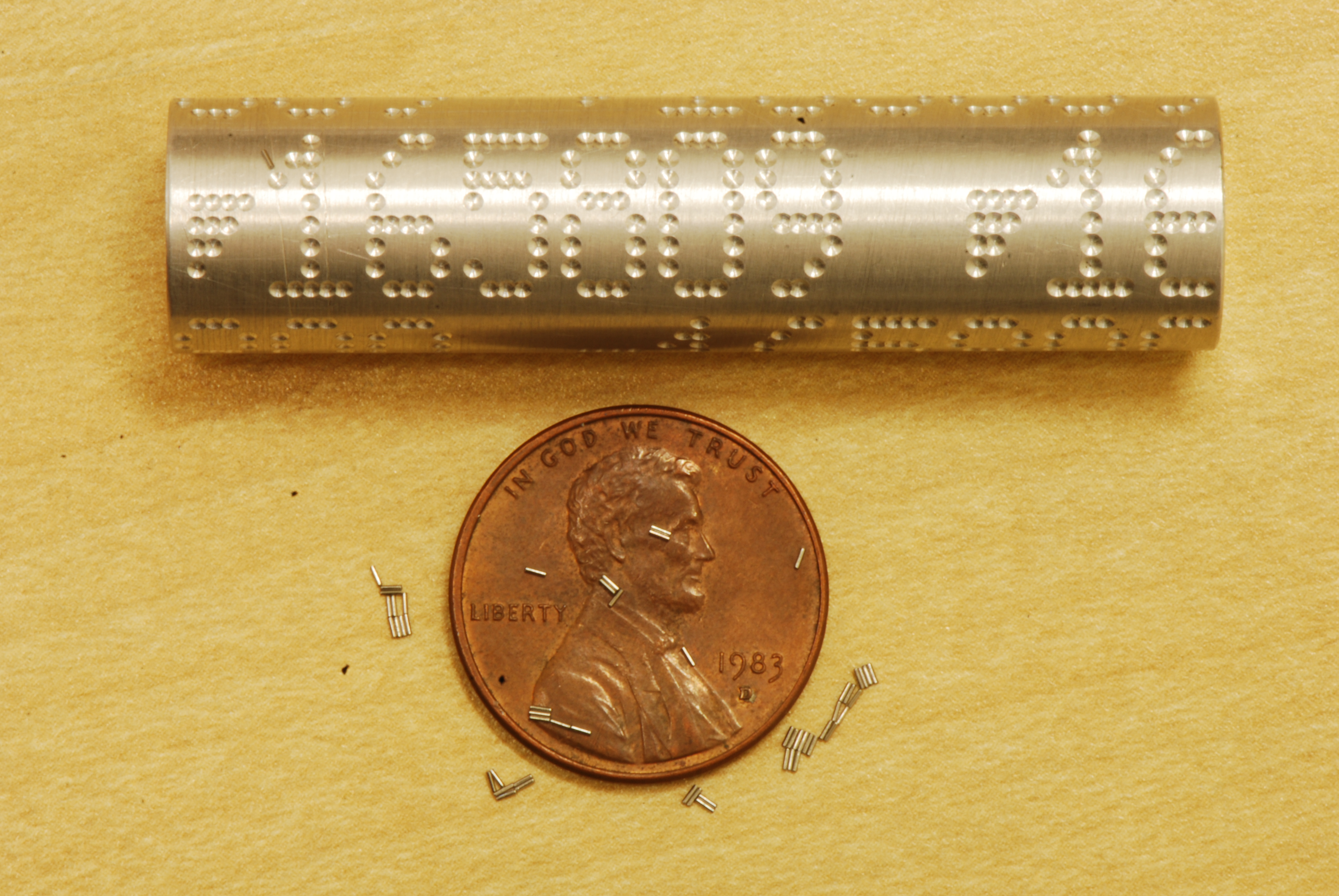 Giant model of coded wire tag with numbers shown in comparison to the actual coded wire tags (1 millimeter length). Penny for size comparison. Coded wire tags are placed in the snout of some fingerling salmon. The coded wire tag has numbers laser etched on the tag.